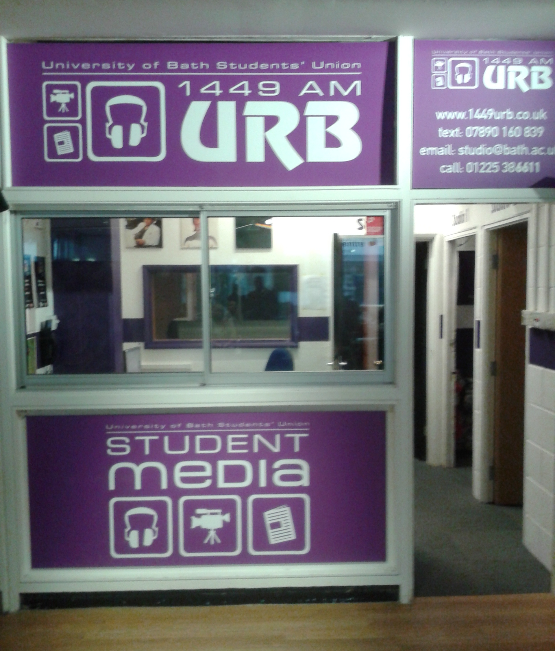 Outside of 144AM URB, as of 11 February 2013.